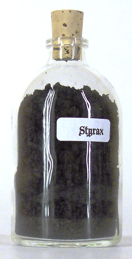 Styrax resin in a 100 ml vial